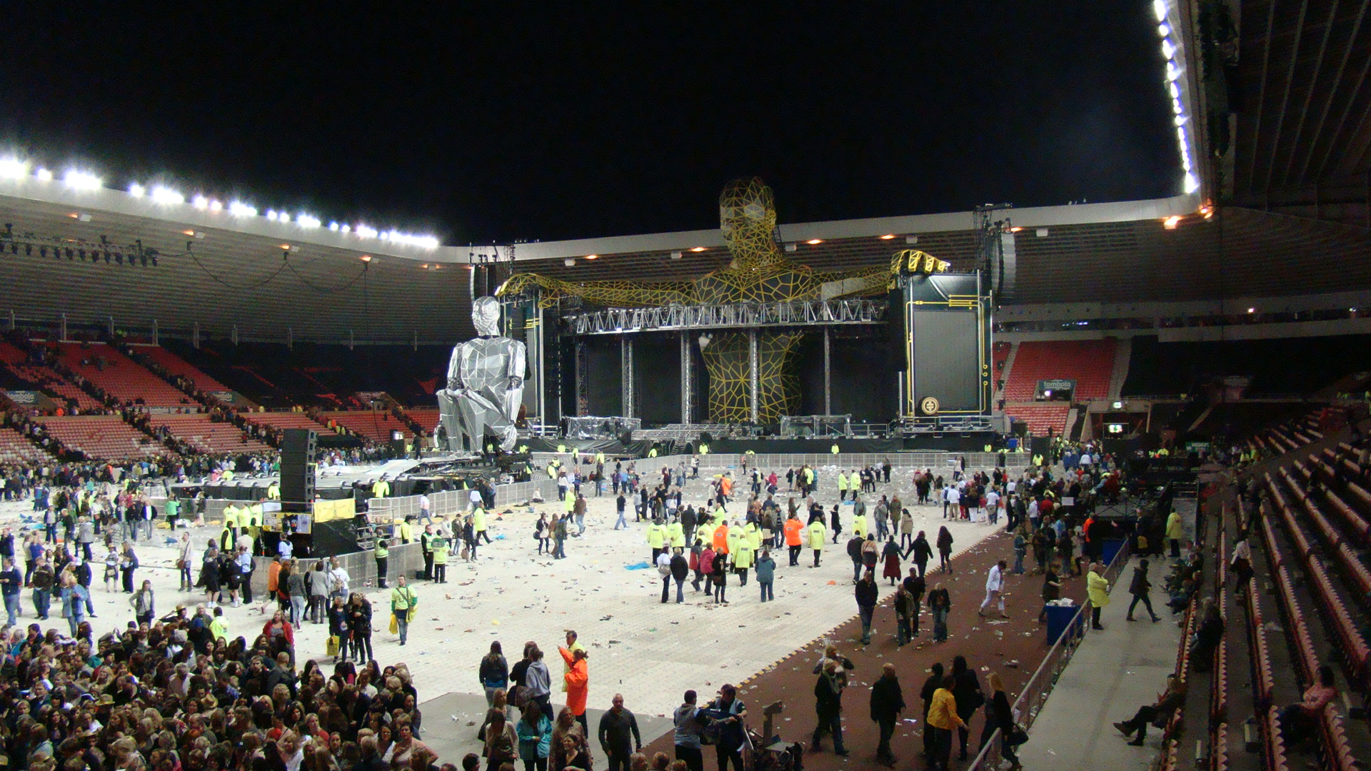 Mr OM sitting down again as the crowds disperse and the lights are back on!